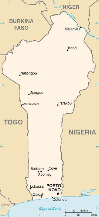 Benin map from CIA World Factbook (since 14 October 2002), converted from original GIF format